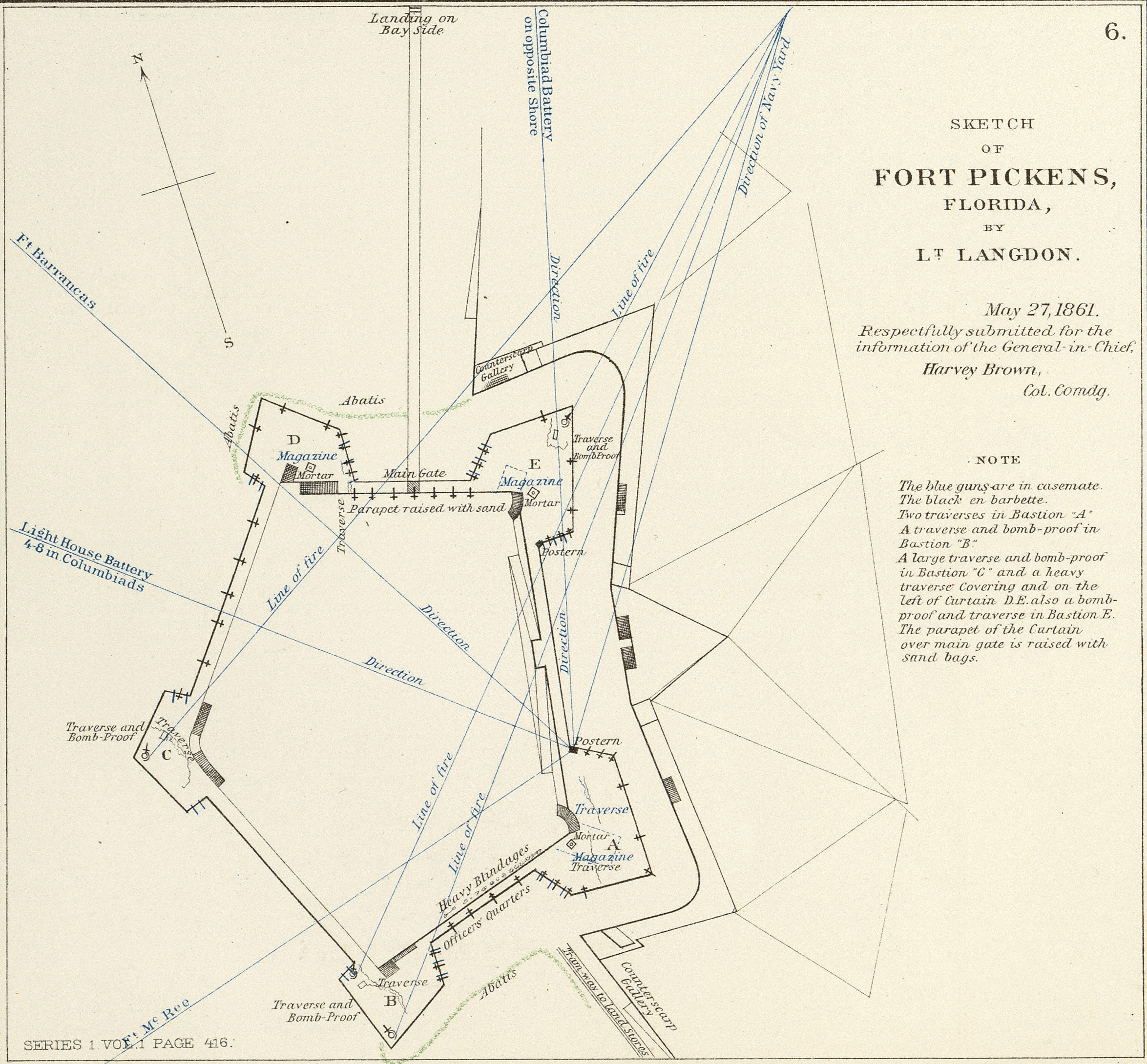 Sketch of Fort Pickens, Florida, by Lt. Langdon ... 1861. Date: 1865